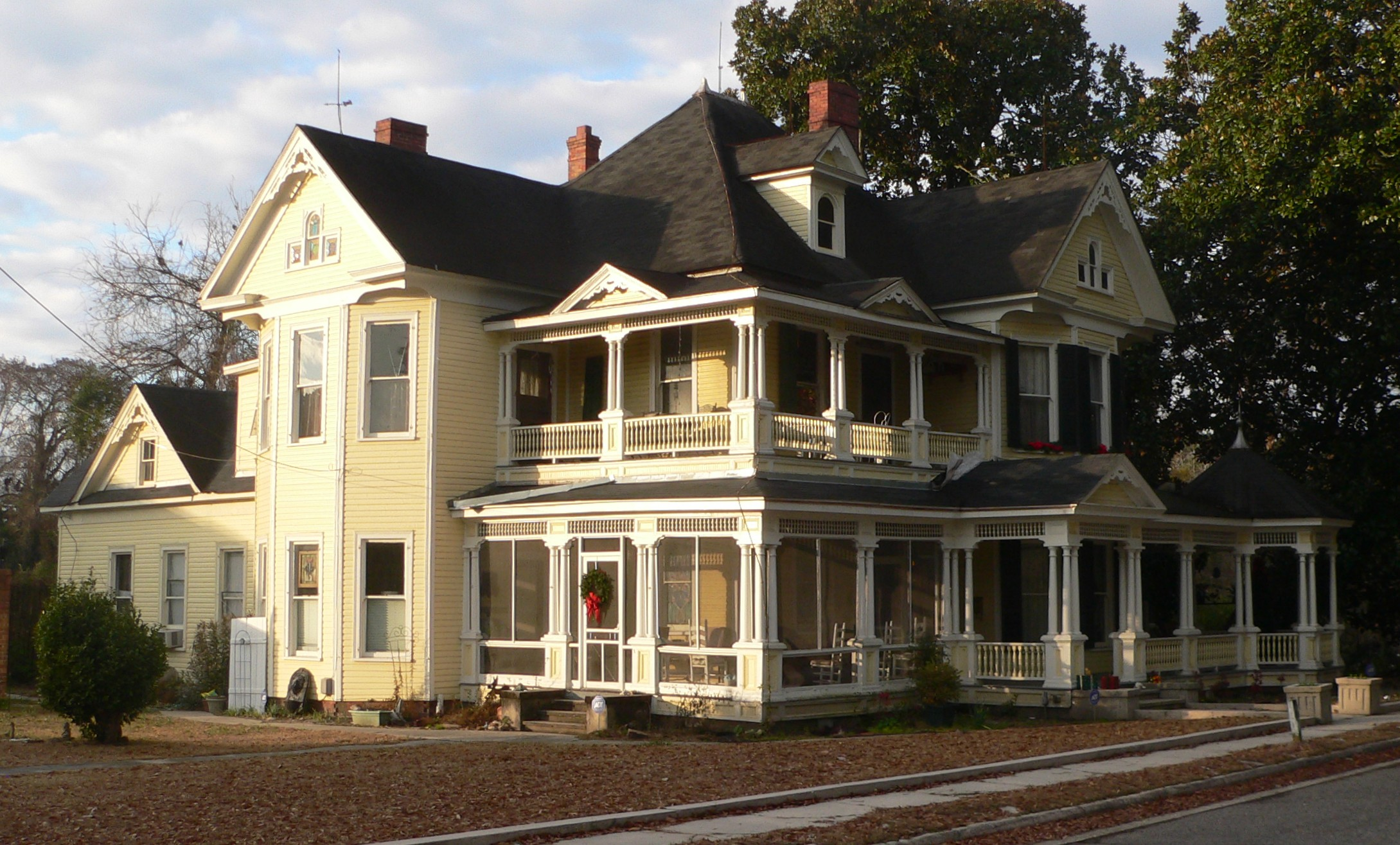 Luther Henry Caldwell house, located at south end of Caldwell Street (8th and Caldwell) in Lumberton, North Carolina; seen from the northeast.